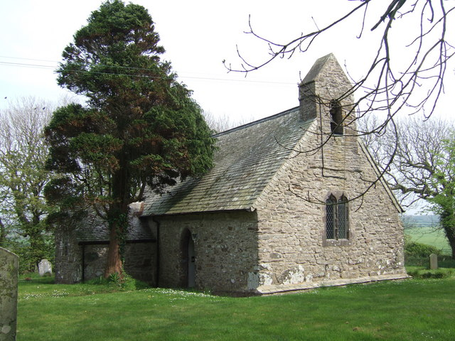 St Hywel's Church (Eglwys Llanhywel) in Llanhowell. An out-of-the-way church, parts dating from C12-14 but much restored in the 1890s. It is likely there was an even earlier monastic settlement here: inside there is an inscribed stone from C5/6, found nearby. Hywel was a Breton saint who appears in the Mabinogion.